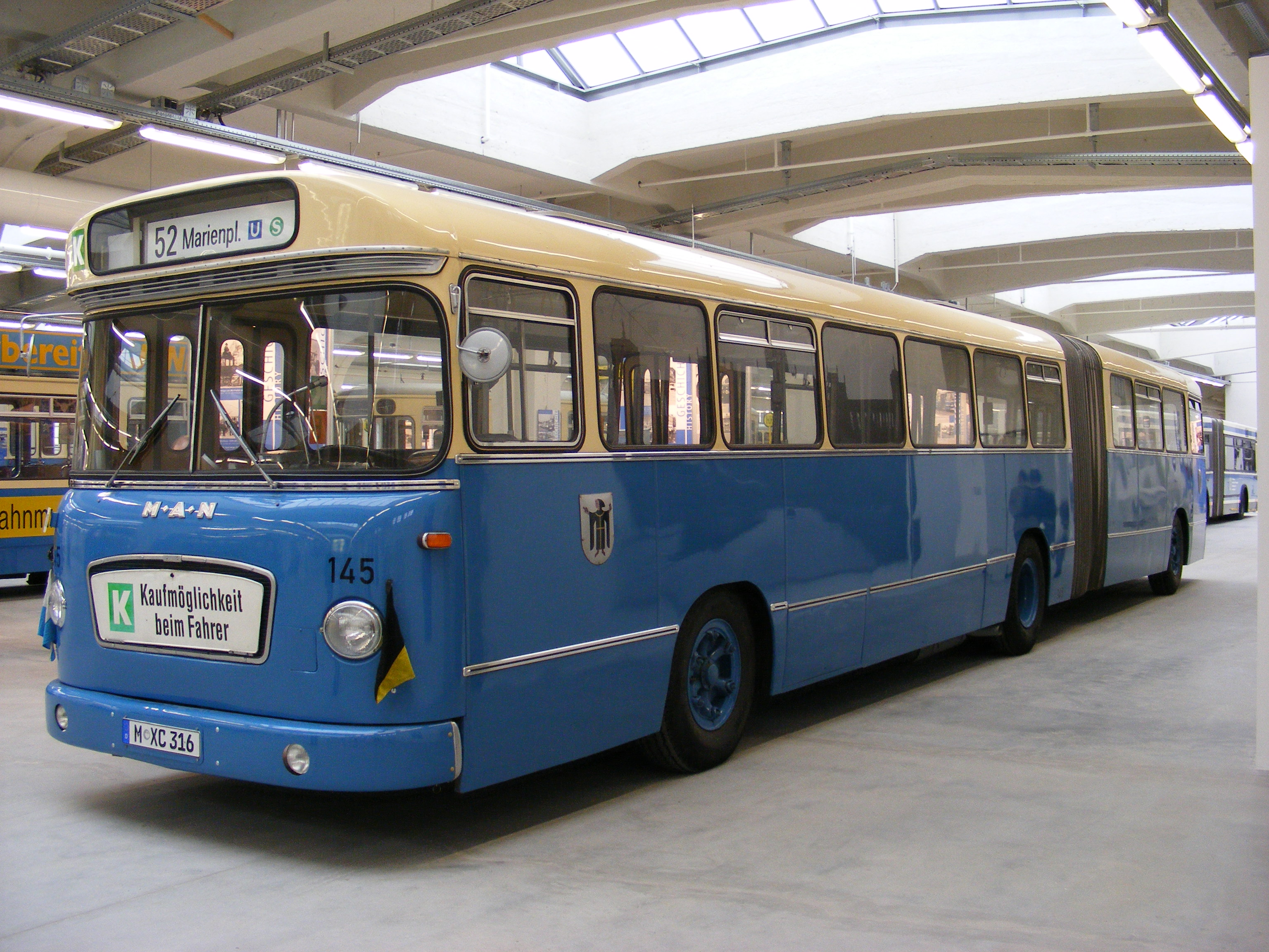 M.A.N./Göppel 890 UG M 16 A bus (#145, reg. M - XC 316) in MVG Museum, Munich, Germany. Built 1965.